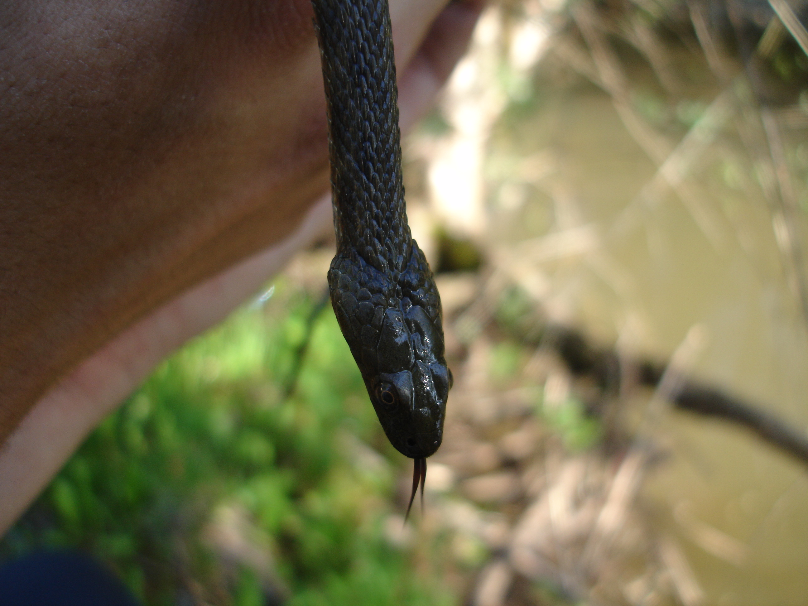 natrix tessellata. picture taken in: Bosnia,Pale author:Filip Lazarevic